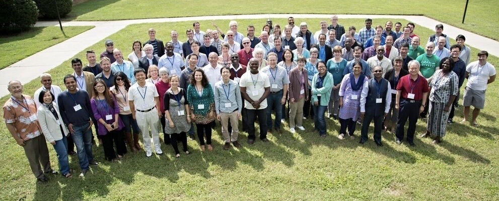 Participants at the Lausanne Global ISM Leadership Forum in Charlotte, North Carolina, USA. 11-16 September 2017. Used in International student ministry